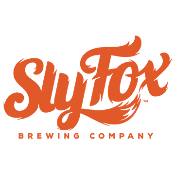 refresh logo